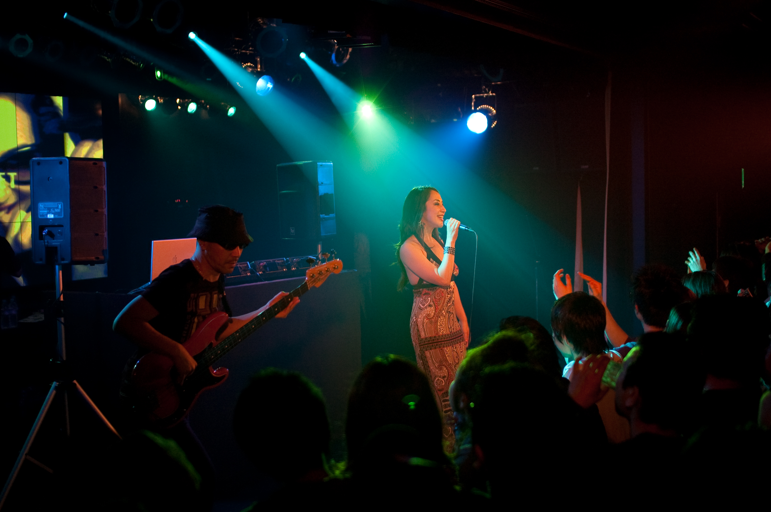 Live: COLDFEET